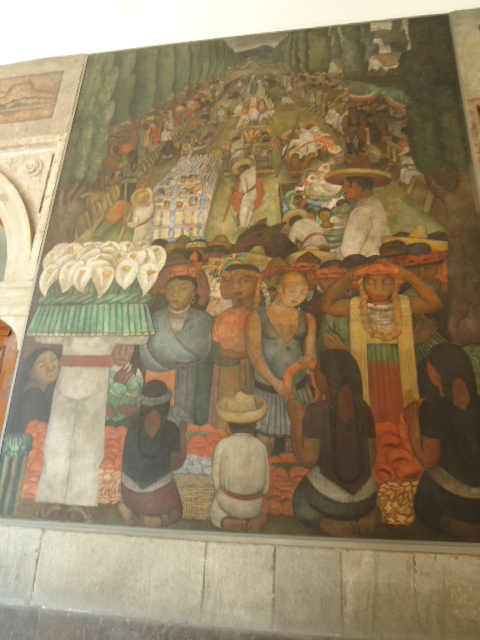 Santa Anita by Diego Rivera in the SEP